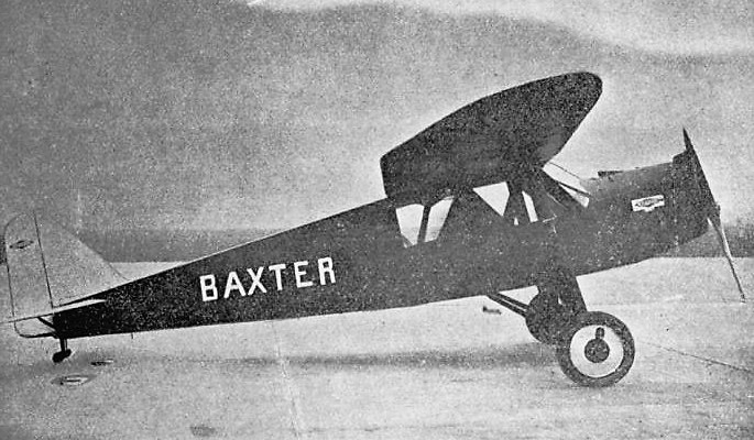 Baxter FK 43 photo from Annuaire de L'Aéronautique 1931